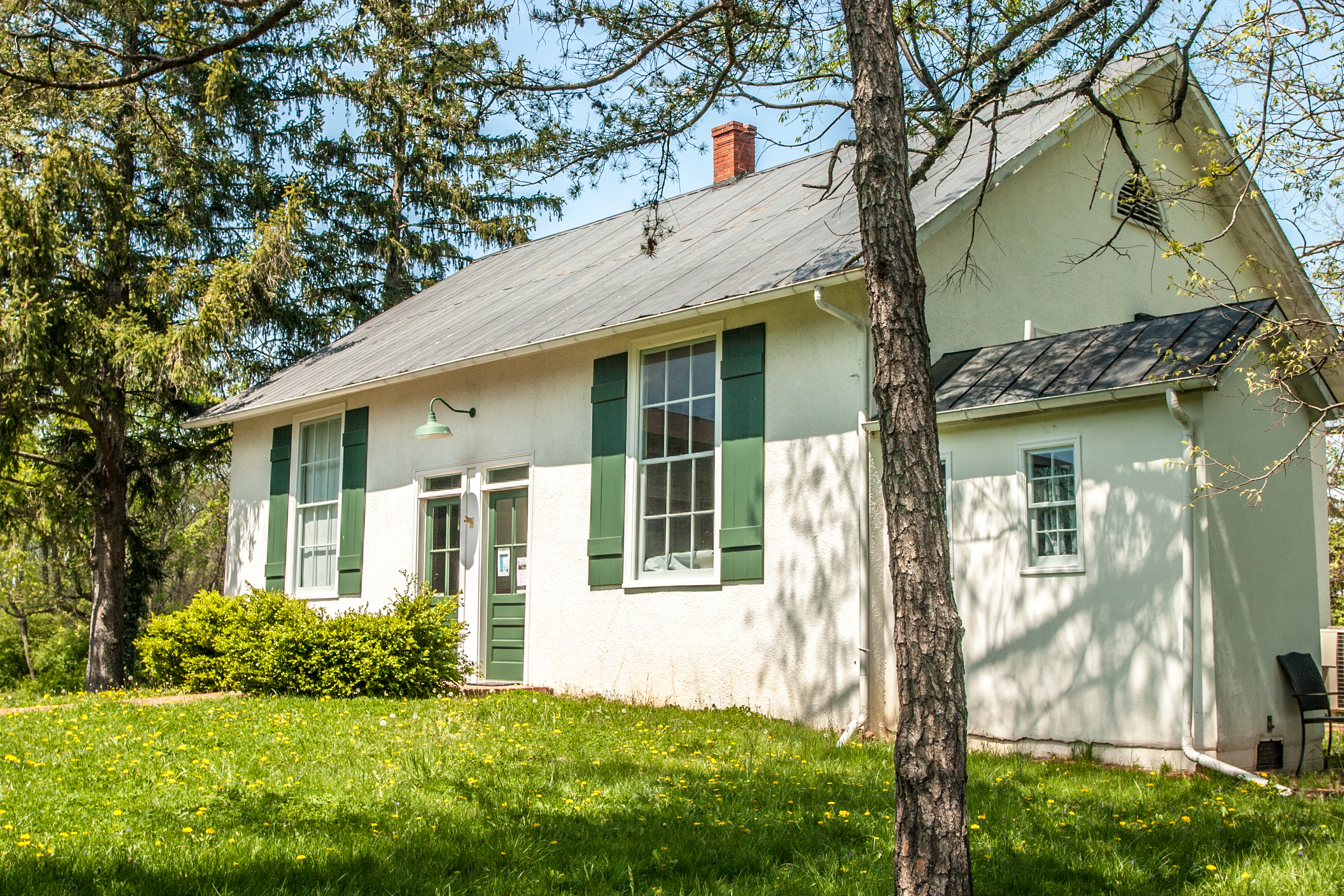 restored Josephine City School now a museum in Berryville, VA